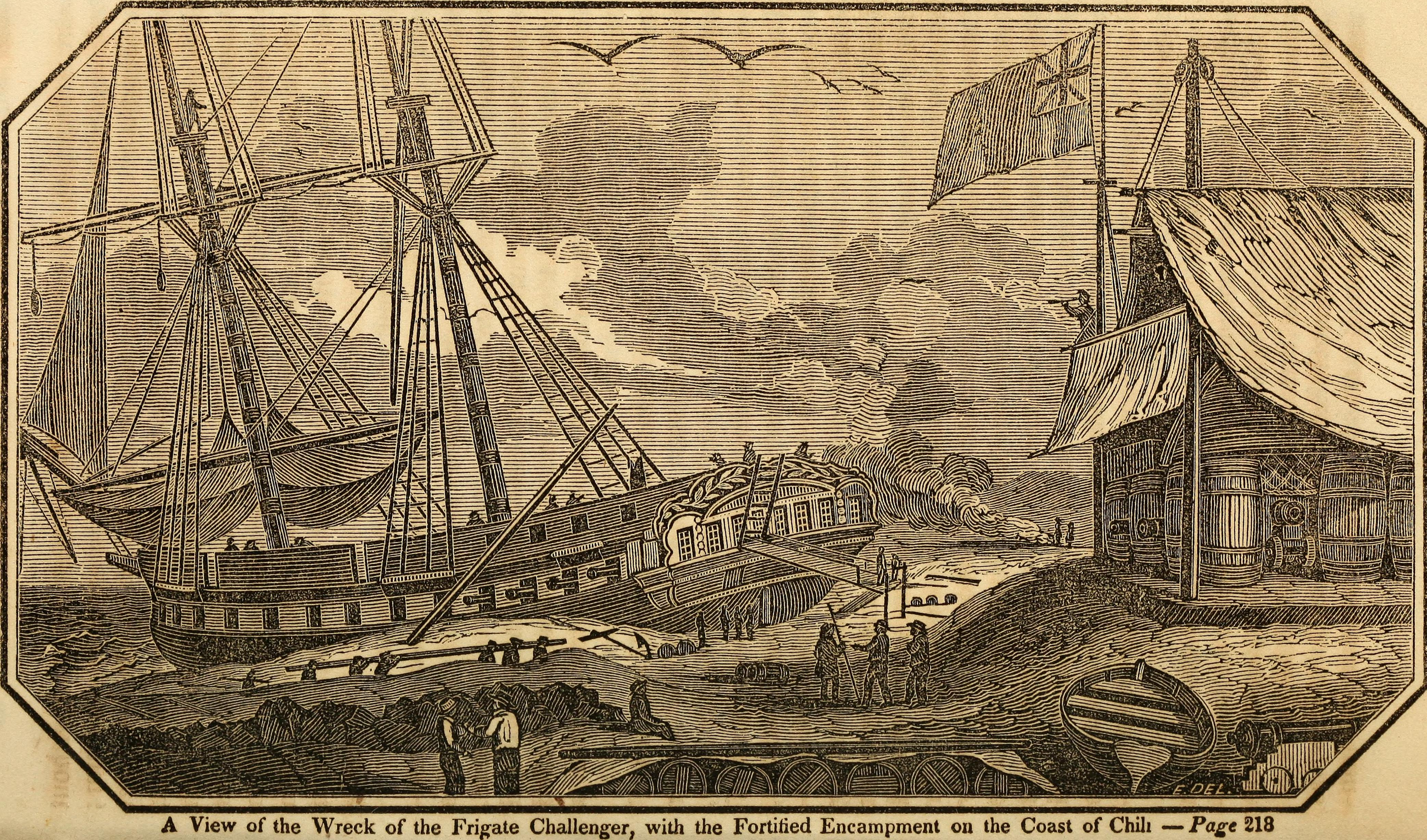 The wreck of HMS Challenger on the coast of Chile in 1835, along with a camp built by the ship's crew.